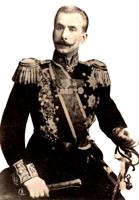 Arthur Cherep-Spiridovich, French postcard of 1920